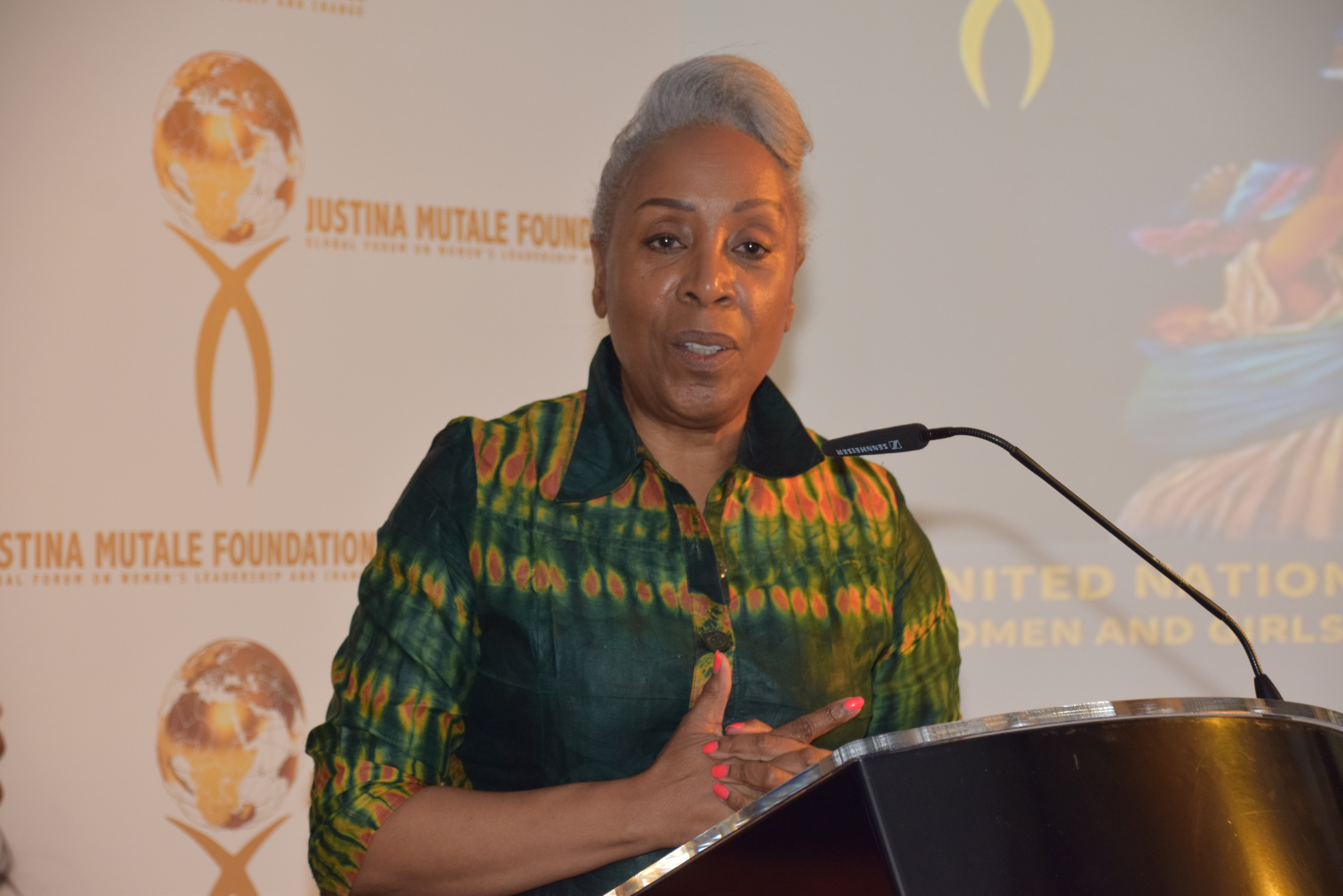 Justina Mutale Foundation United Nations CSW61 Event Woman and Girls in a Changing World of Work at the Hospital Club London Dr Yvonne Thompson CBE Author Seven Traits of Highly Successful Women on Boards